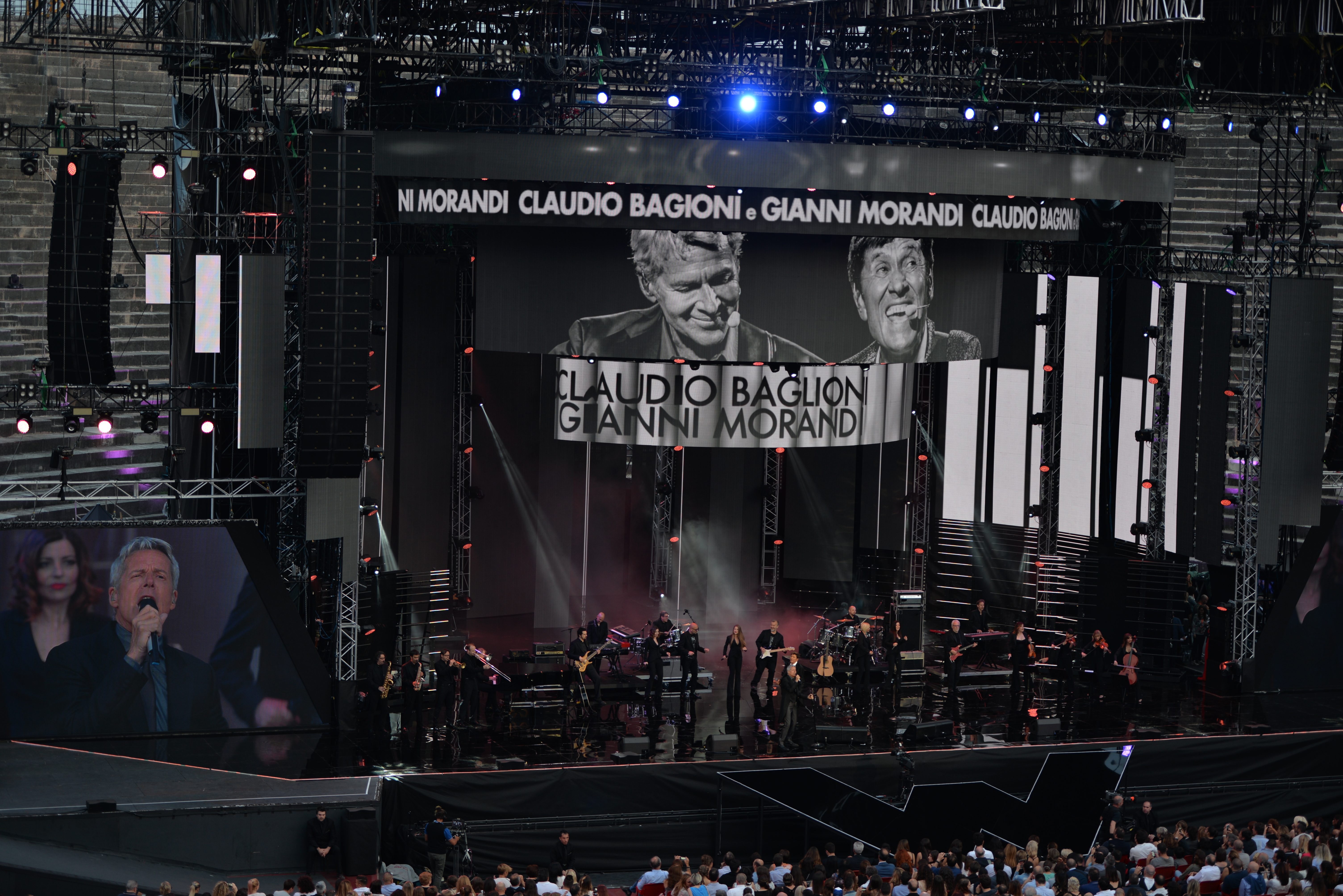 Cladio Baglioni and Gianni Morandi at the Wind Music Awards 2016 ceremony at Verona Arena